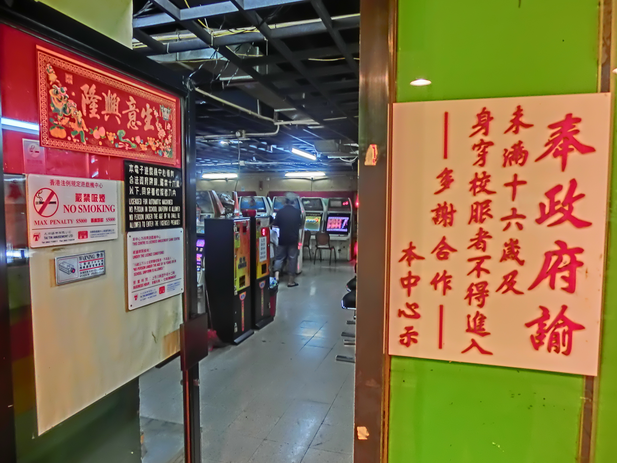 觀塘裕民中心, No.300-302 Ngau Tau Kok Road, Kwun Tong, Hong Kong